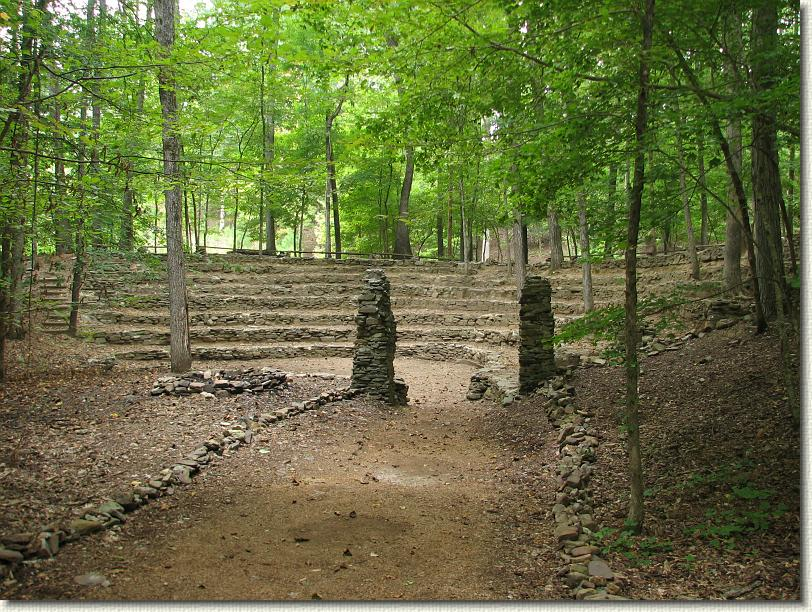 Thought to be the heart of Camp Sidney Dew, the Council Ring is the host to the beginning and end of each week during summer camp with its campfires.